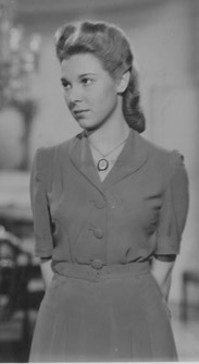 Lidia Denis-actriz